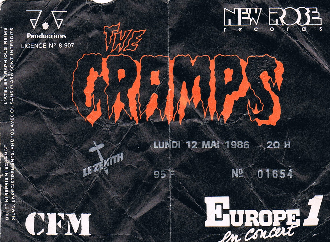 Tickets for the Cramps concert at the Zénith in Paris, may 1986